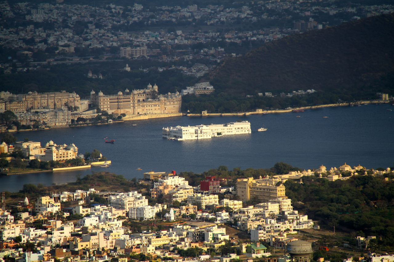 Udaipur city and neighboring Aravalli mountains region Lakes, villages, cities, rural parts of southeast and south Rajasthan Aravali range, Rajasthan India March 2015